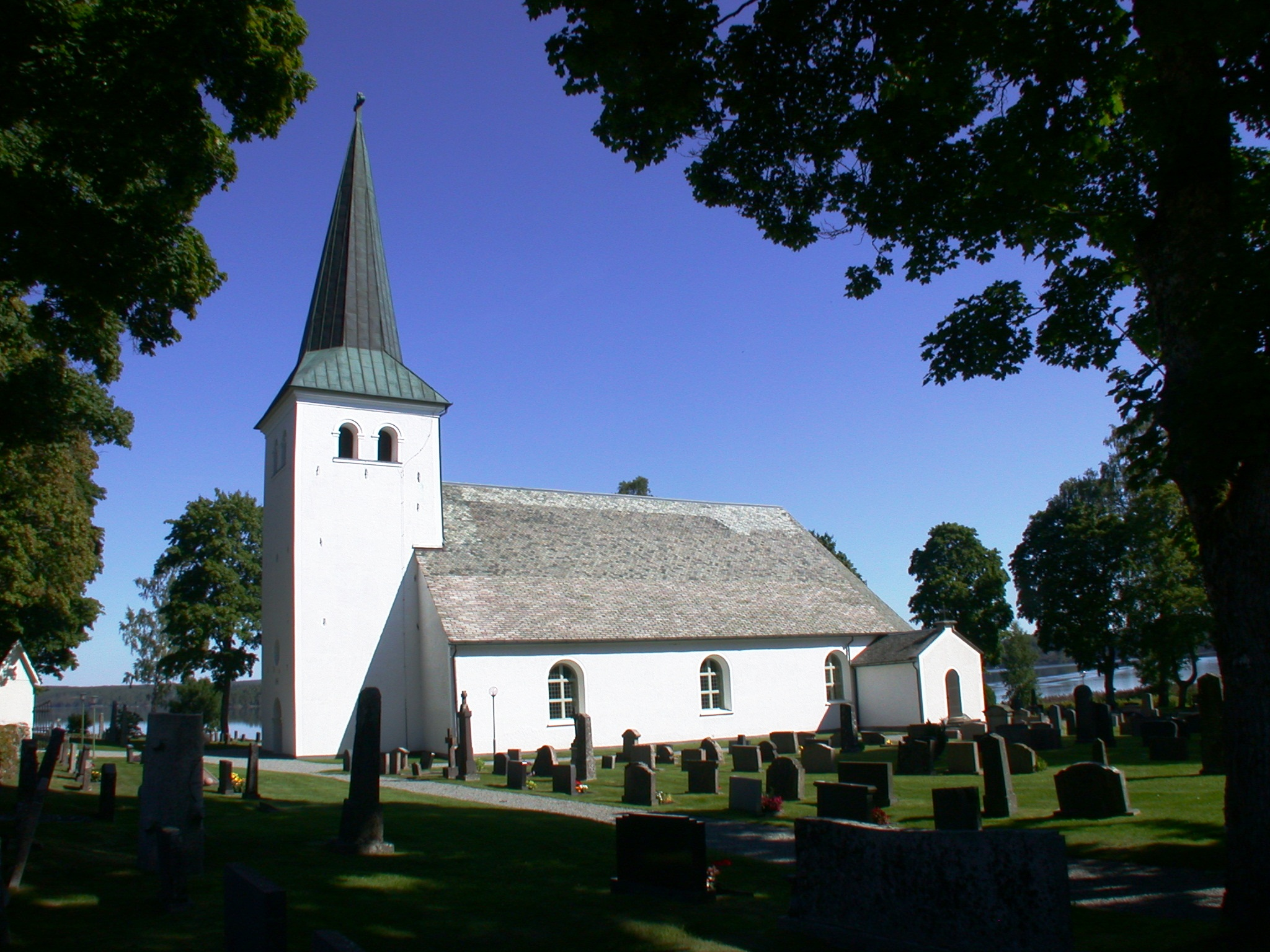 The church in Torrskog, Sweden